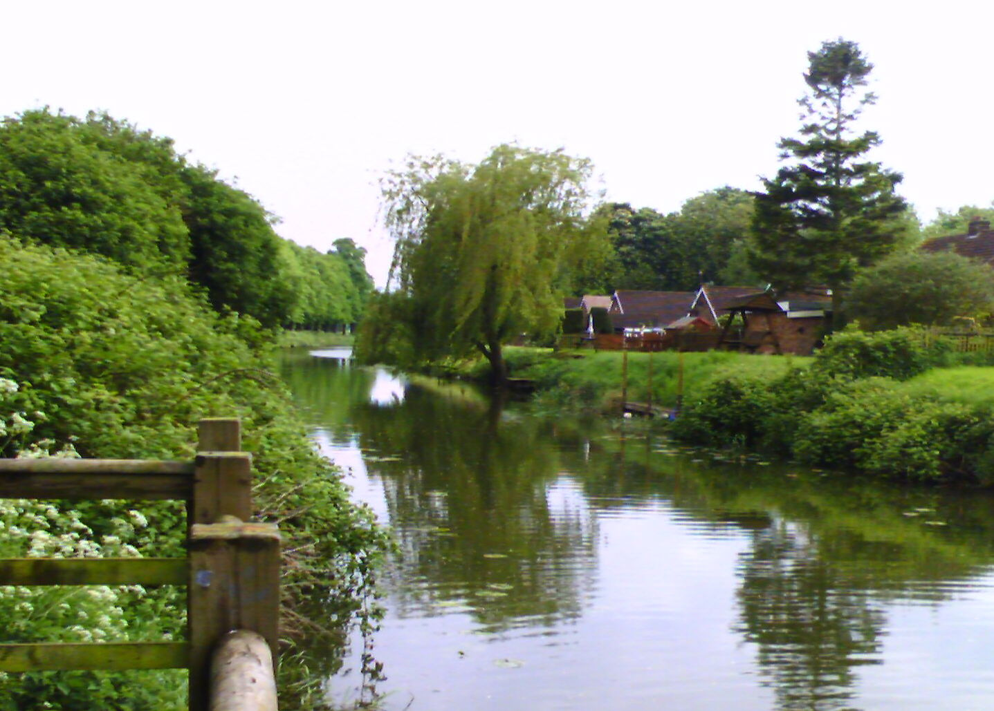 River Ancholme, Brigg (N Lincs) Photo by Asterion talk to me